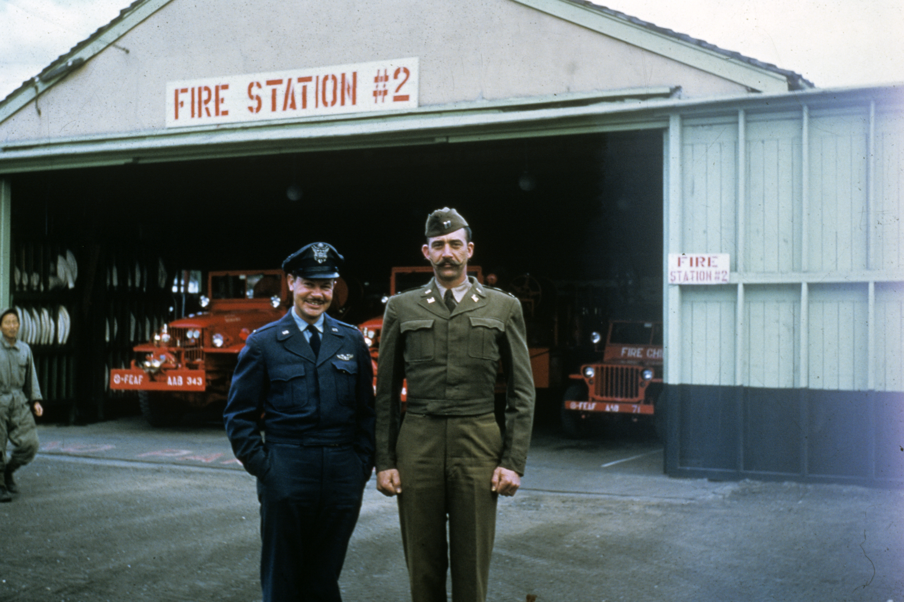 Fire Station Anyang Korea with Capt. Claxton Ray (rt) and unknown airman.